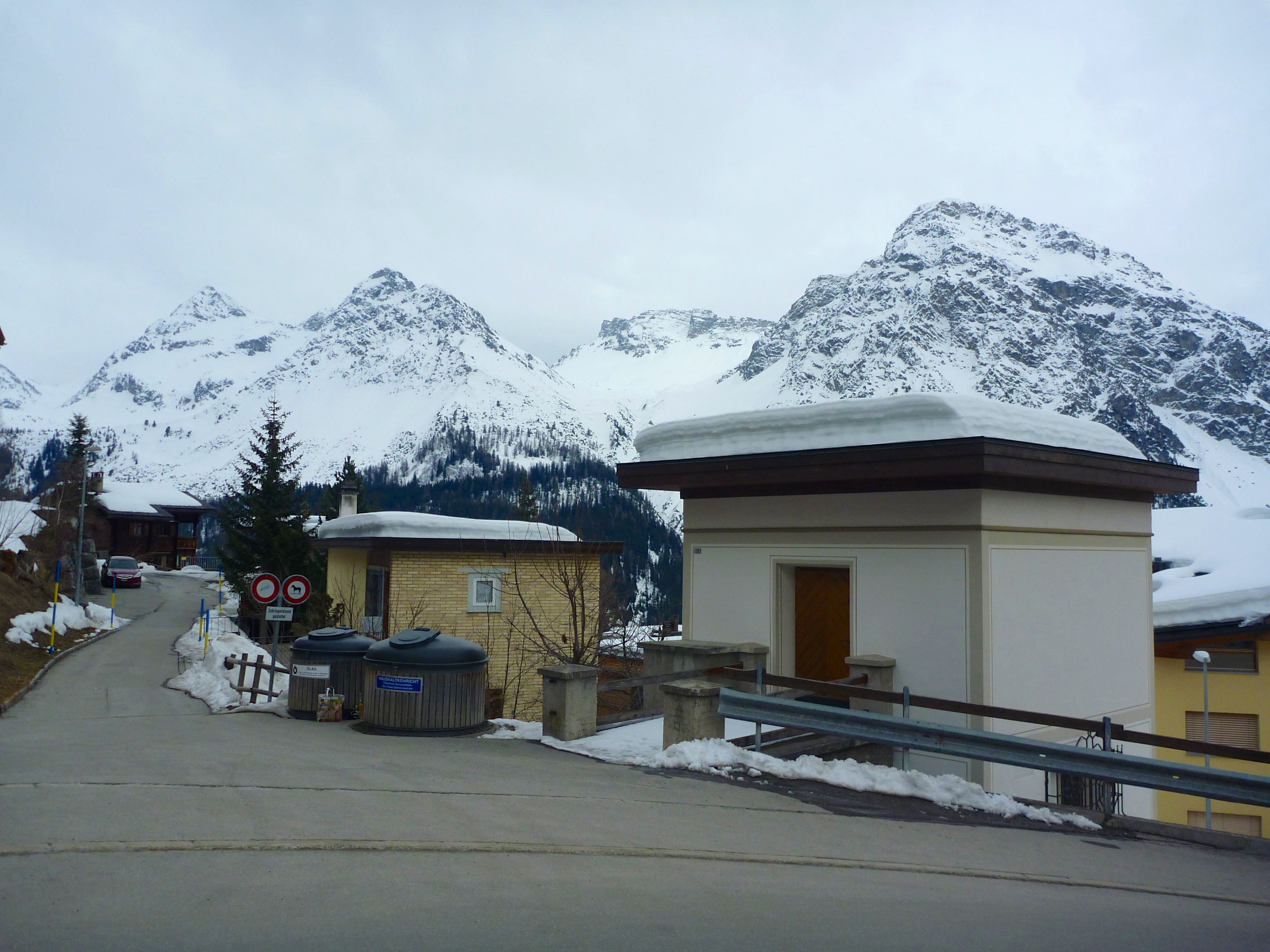 morgue (right) in the centre of Arosa, Switzerland